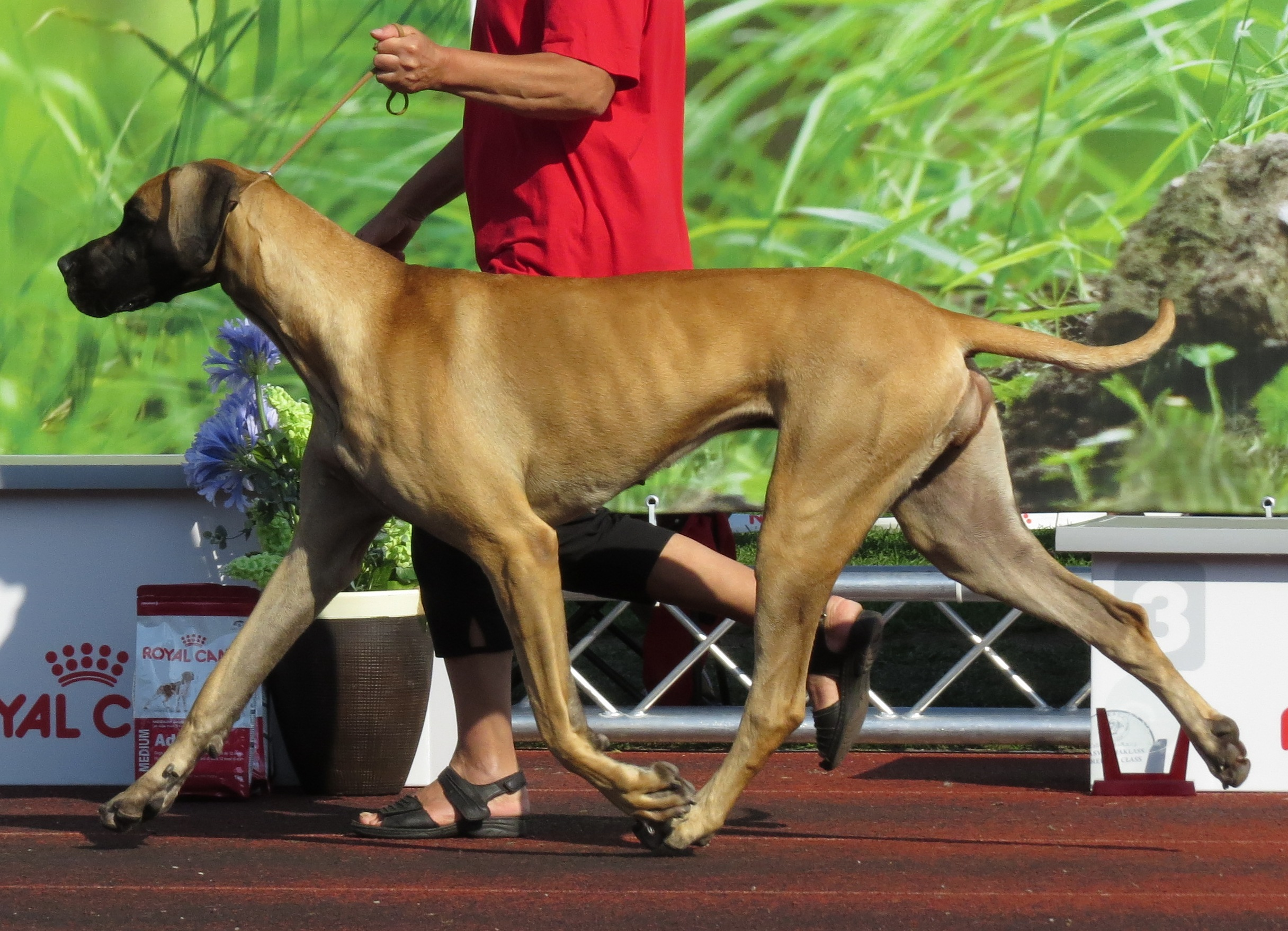 Tallinn, Estonia, duo CACIB 2013, August 17-18, Best in Puppies competition